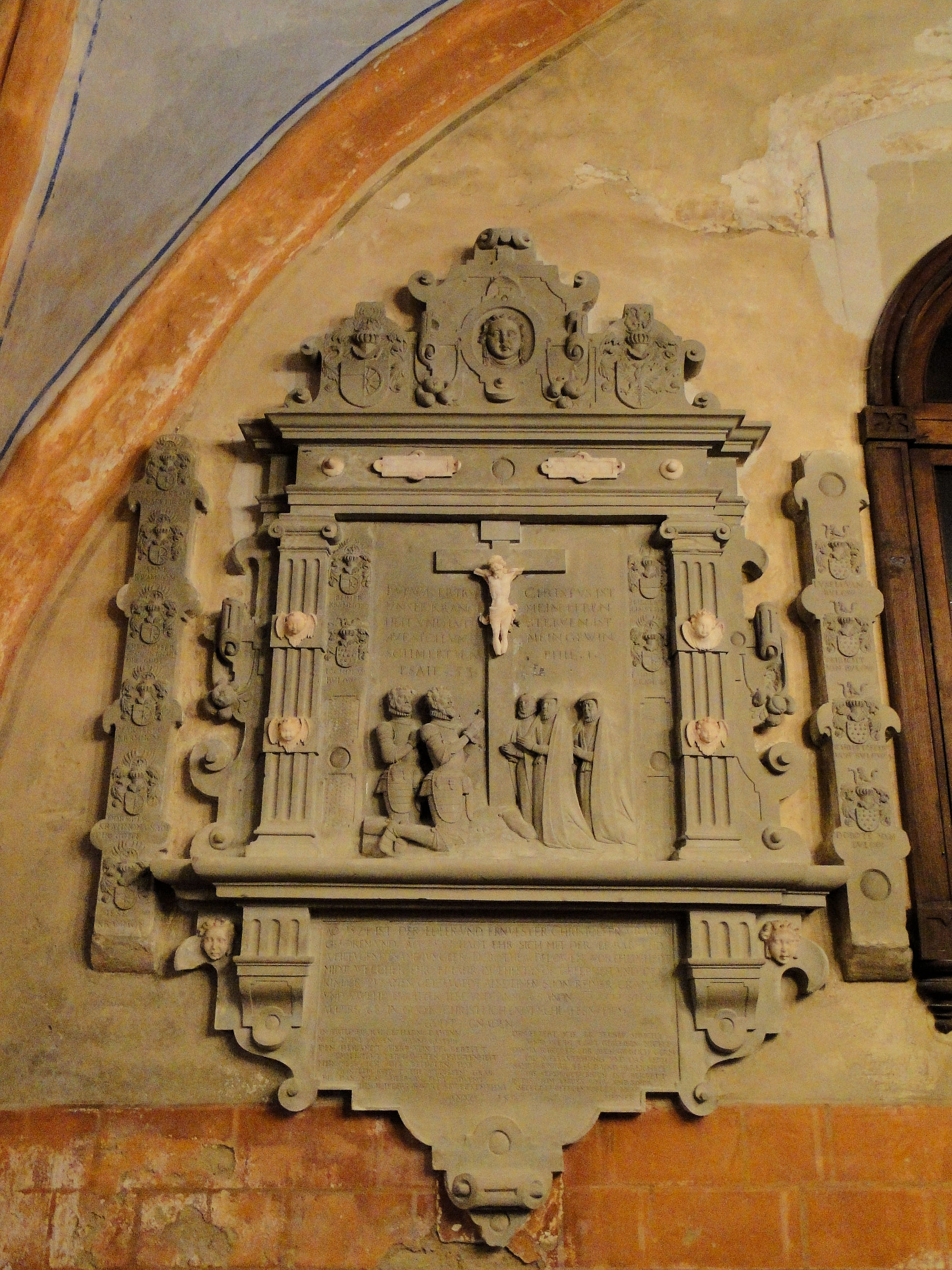 Interiors of church in Woserin, district Parchim, Mecklenburg-Vorpommern, Germany